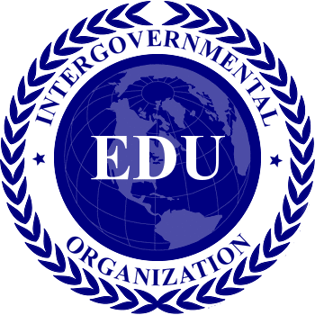 Emblem, Logo, Seal of the Inter-governmental Organization EDU promoting global education and accreditation.